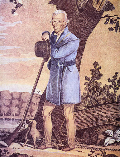 "Col. Daniel Boone", engraving by James Otto Lewis, based on a lost 1820 painting by Chester Harding. In 1861, Harding destroyed the original painting, which had been painted on ordinary table oilcloth and was aging poorly, by cutting out the head and putting it on a new canvas. Lewis's engraving is the only remaining version of the original full-length portrait. This engraving accurately depicts Boone's clothing—later depictions often inaccurately put Boone in a coonskin cap.